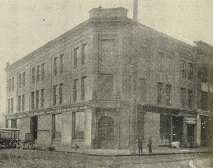 Crescent Manufacturing Company from brochure Seattle and the Orient (1900). The building at 122 S. Jackson is still standing; it is at the south end of the pedestrianized Occidental Mall. See article about the building on the site of the Seattle Department of Neighborhoods.